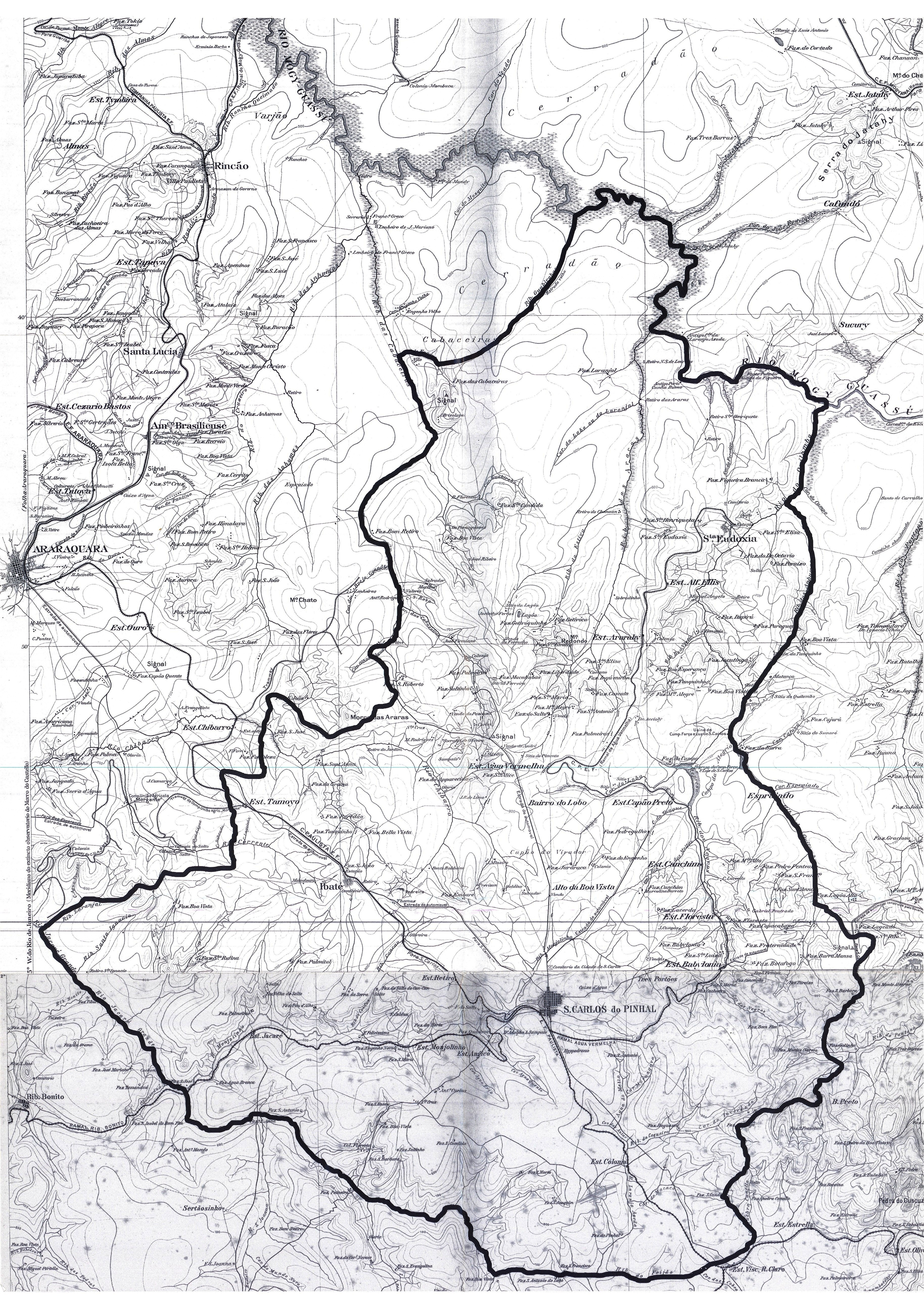 Map of the municipality of São Carlos (including the district of Ibaté), state of São Paulo, Brazil, in the early 20th century.